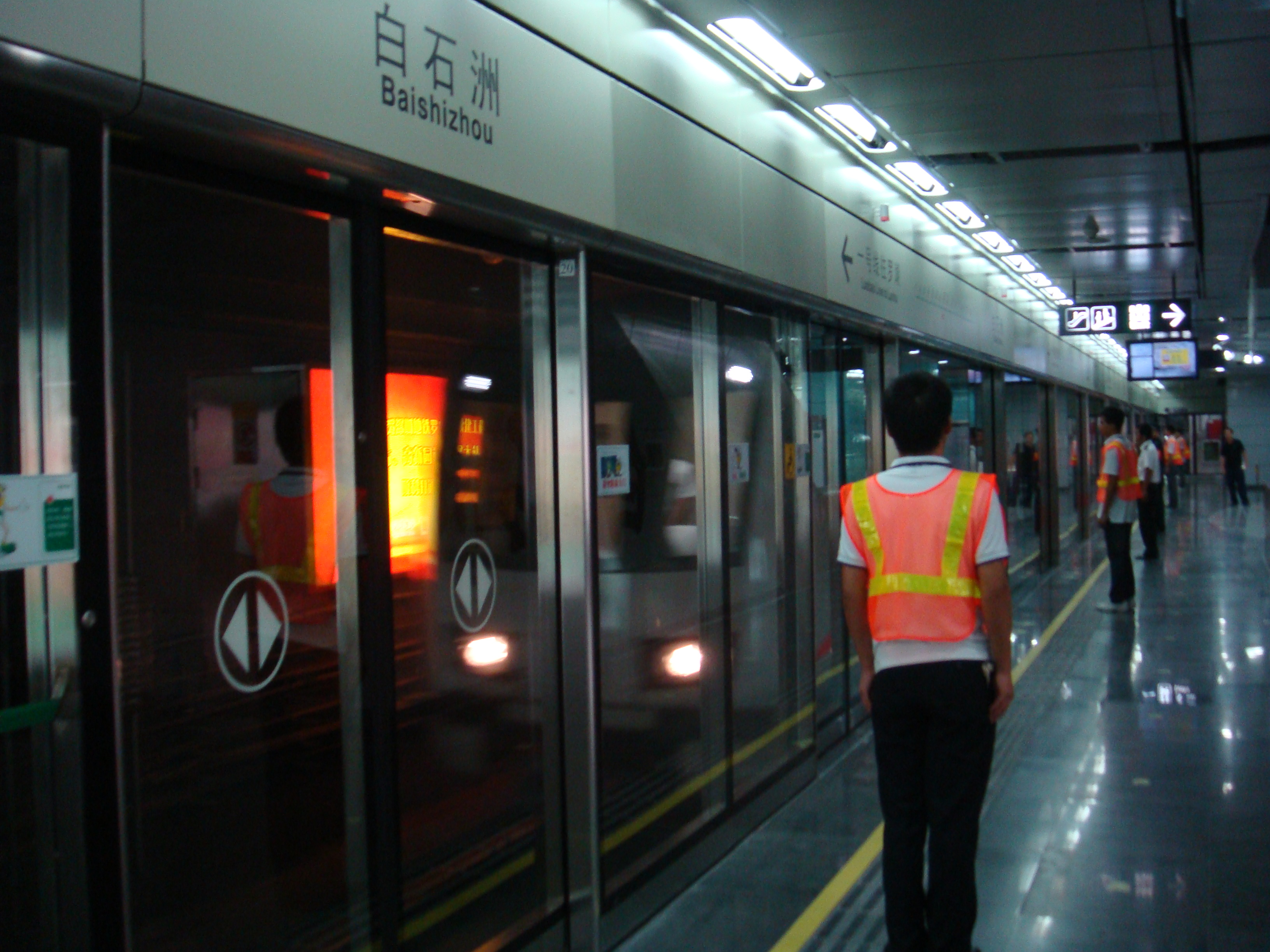 Bai Shi Zhou Sta, SZMC